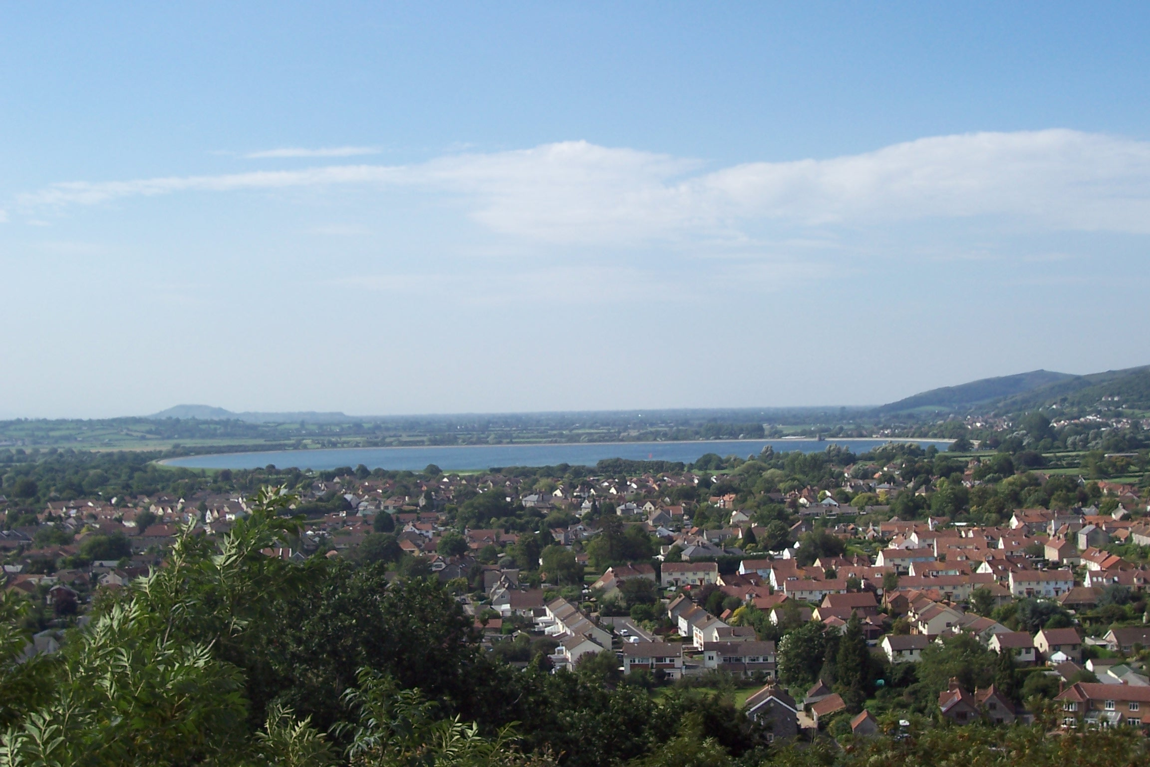 view over Cheddar to Cheddar Reservoir